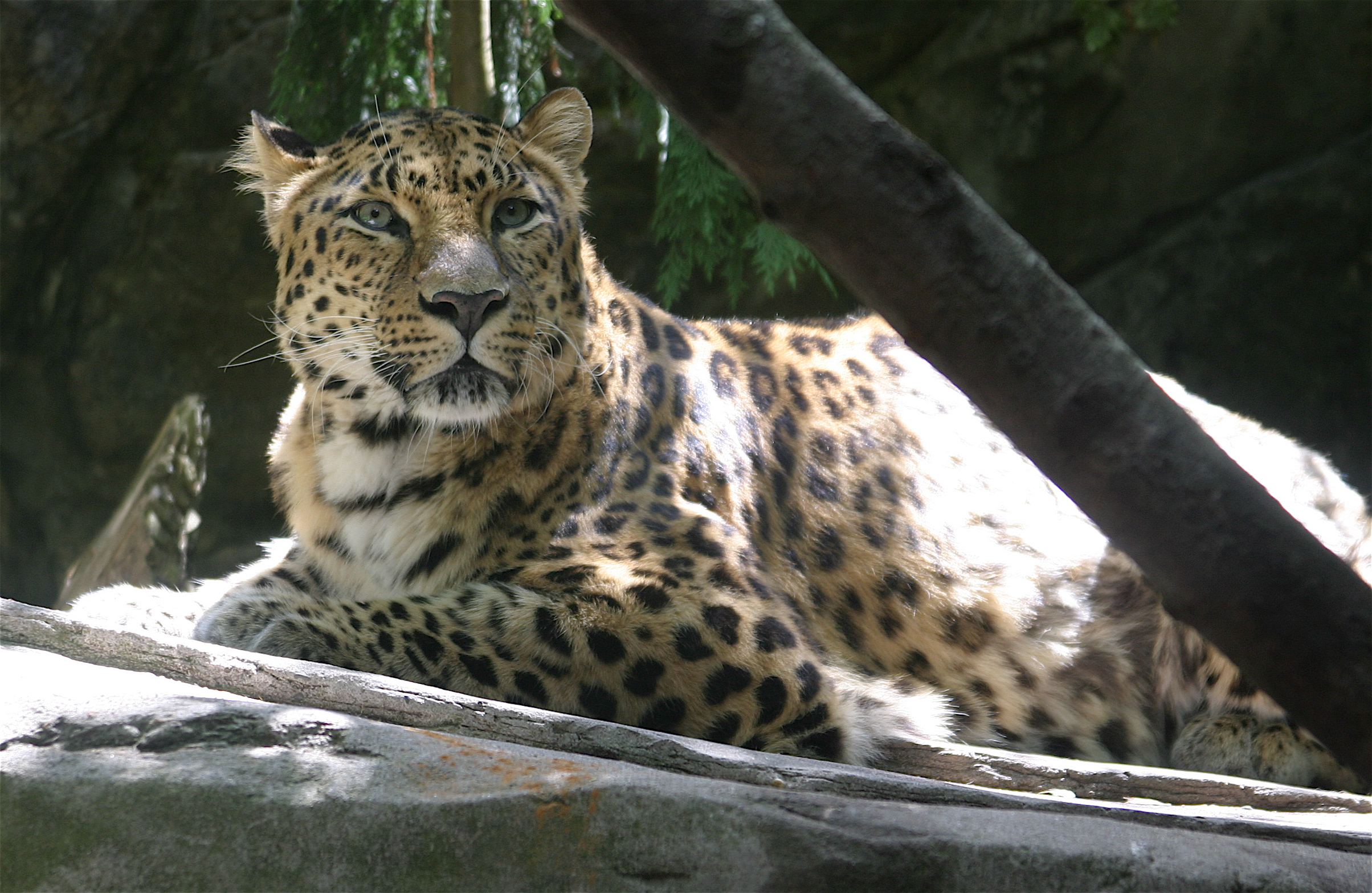 Panthera pardus orientalis (Amur Leopard) at the Oregon Zoo